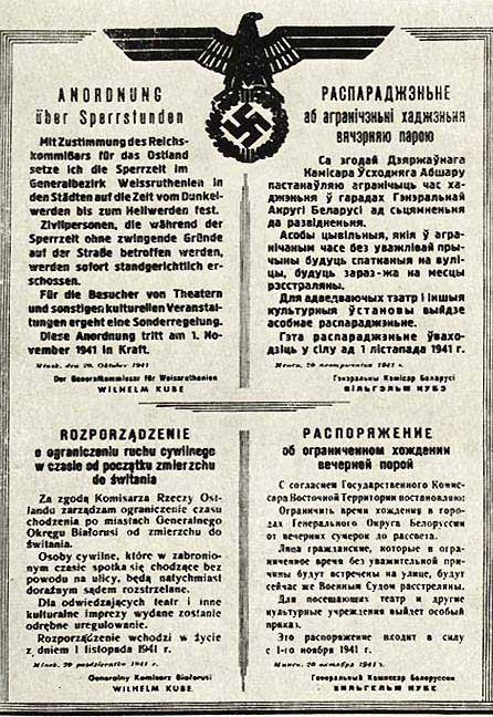 Administrative order for the General District of White Ruthenia imposing a strict night curfew. Anyone apprehended during nighttime is to be shot. Dated 25th October 1941.